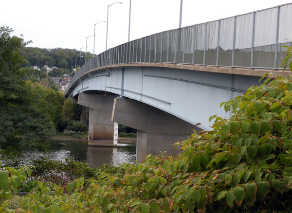 Picture of the Coraopolis-Neville Island Bridge, which spans the back channel of the Ohio River between Coraopolis, Pennsylvania, and Neville Township, Allegheny County, Pennsylvania, on September 26, 2010. This bridge (OB02) was built in 1994 and completed in 1995, and replaced the former truss bridge at this location.